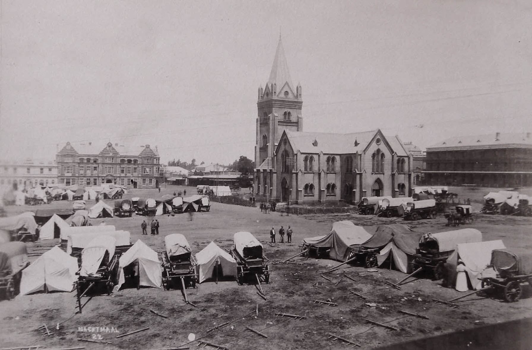 The 2nd and last church building on Church Square, known as the Verenigde Kerk (i.e. United Church), and the Grand Hotel (dark building to the right), Pretoria. The building was consecrated in 1885, and demolished in 1904/1905 after former SAR president Paul Kruger's funeral was conducted beside it. The church is shown during nachtmaal (divine service) which was held once every three months.